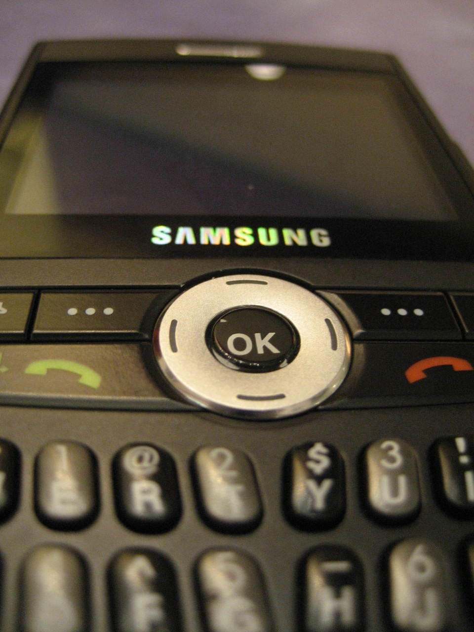 Samsung Black Jack, Ancyall Ultra Messaging